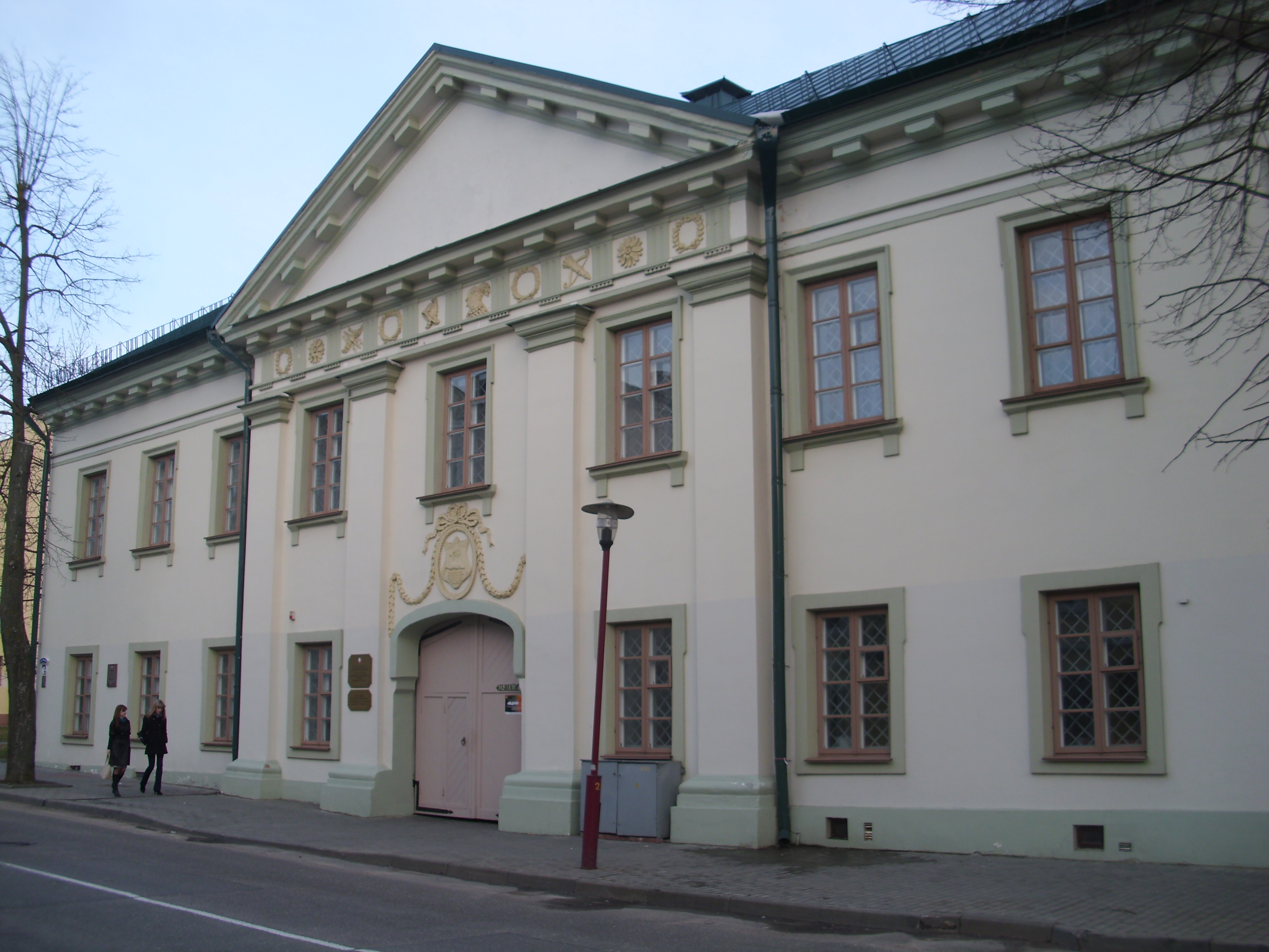 Museum of religion in Grodna.